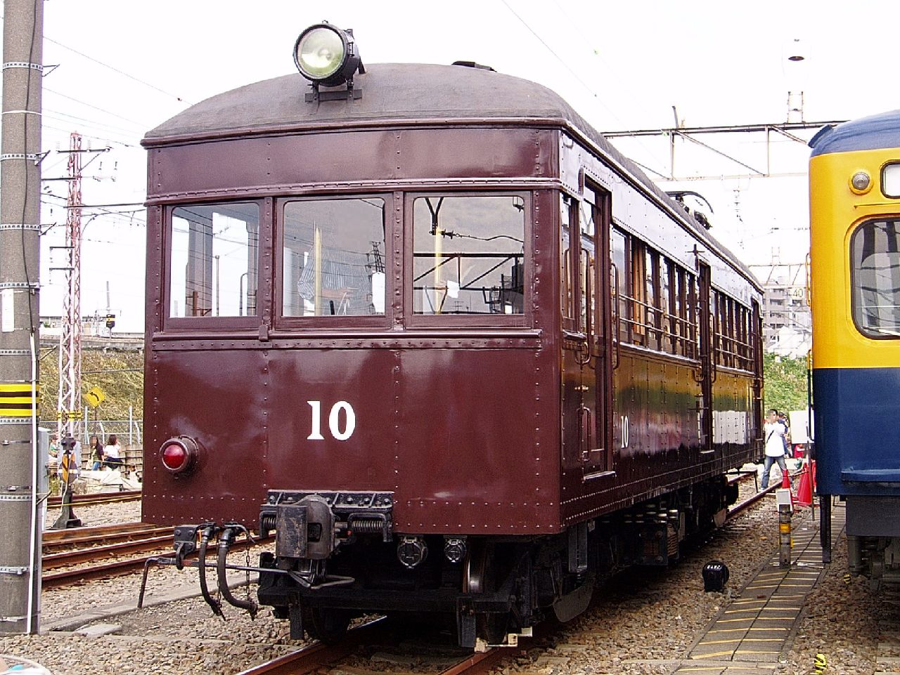 Odawara Express Reilway, EMU Type 1 No.10